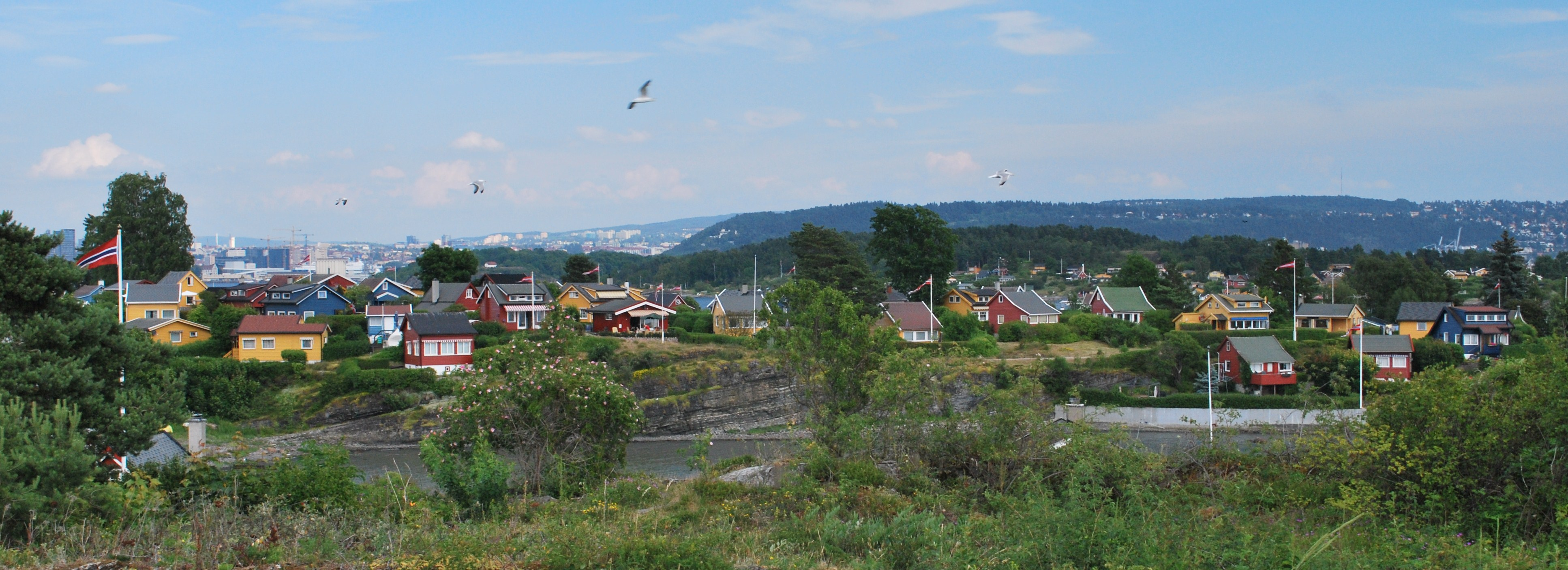 Cottages (summer houses (Norw. hytter)) on island Nakholmen, Oslo